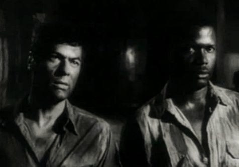 Tony Curtis and Sidney Poitier in The Defiant Ones - trailer (cropped screenshot)